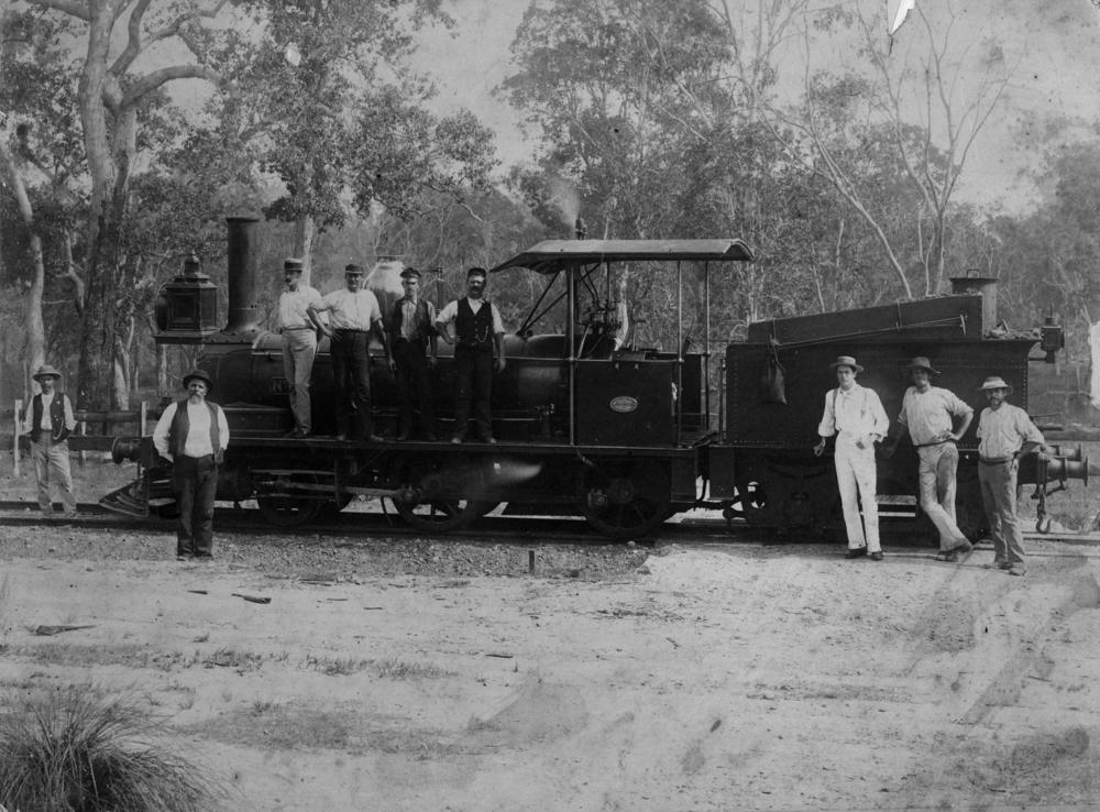 Steam locomotive with a group of men gathered around it, ca. 1880 This locomotive has a plate on the side of the cabin with the words 'Railway Works Ipswich Queensland 1877' inscribed. The locomotive was built at Ipswich Railway Workshops in 1877. It was known as an A10 class steam locomotive (or an Ipswich A10). It ran on the southern and western railway, as Locomotive 36, until 1881 when it operated on the Bundaberg Railway. In 1890 it was sold to contractors building part of the Bundaberg - Gladstone railway and in 1892 sold again to Young Brothers of Fairymead Mill, Bundaberg. It was used initially on trains at Avonside, then at the mill at North Bundaberg. Its boiler exploded at Avondale in the early 1890s. In 1935 it was replaced by a locomotive purchased from Mount Lyall in Tasmania but its remains were not disposed of until 1951.